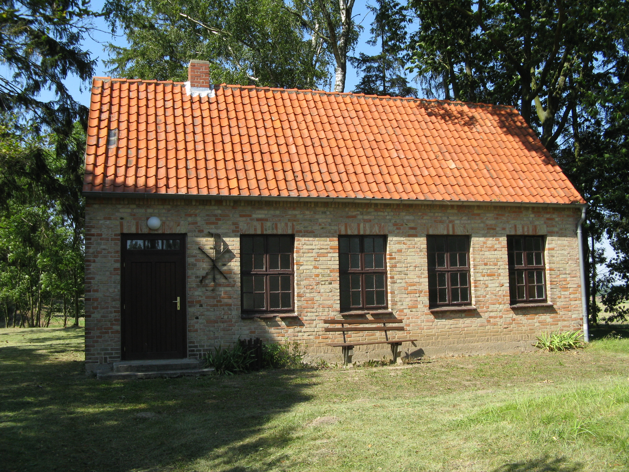 Church in Beestland, disctrict Demmin, Mecklenburg-Vorpommern, Germany